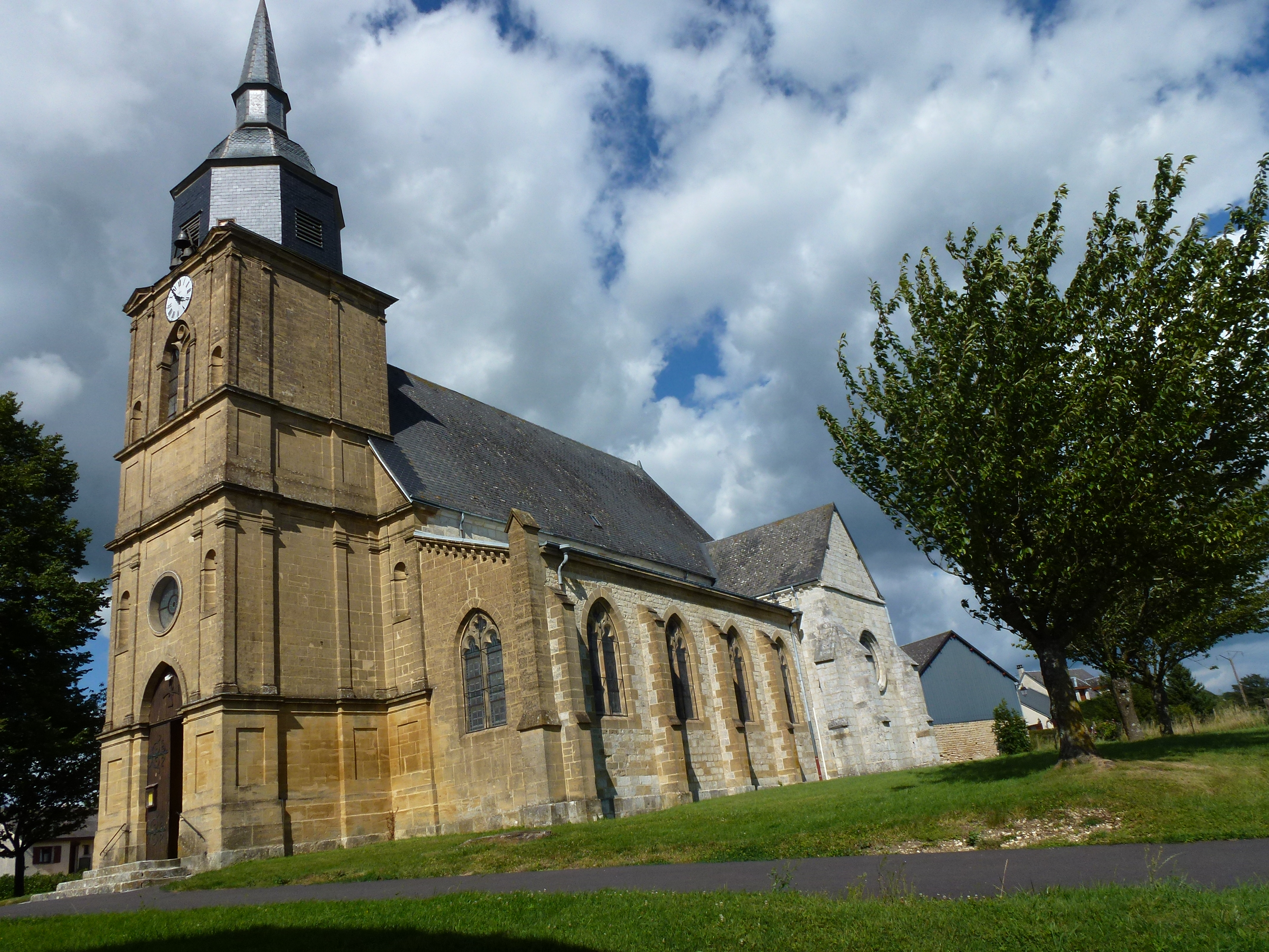 Jandun (Ardennes) église Notre-Dame, vue latérale